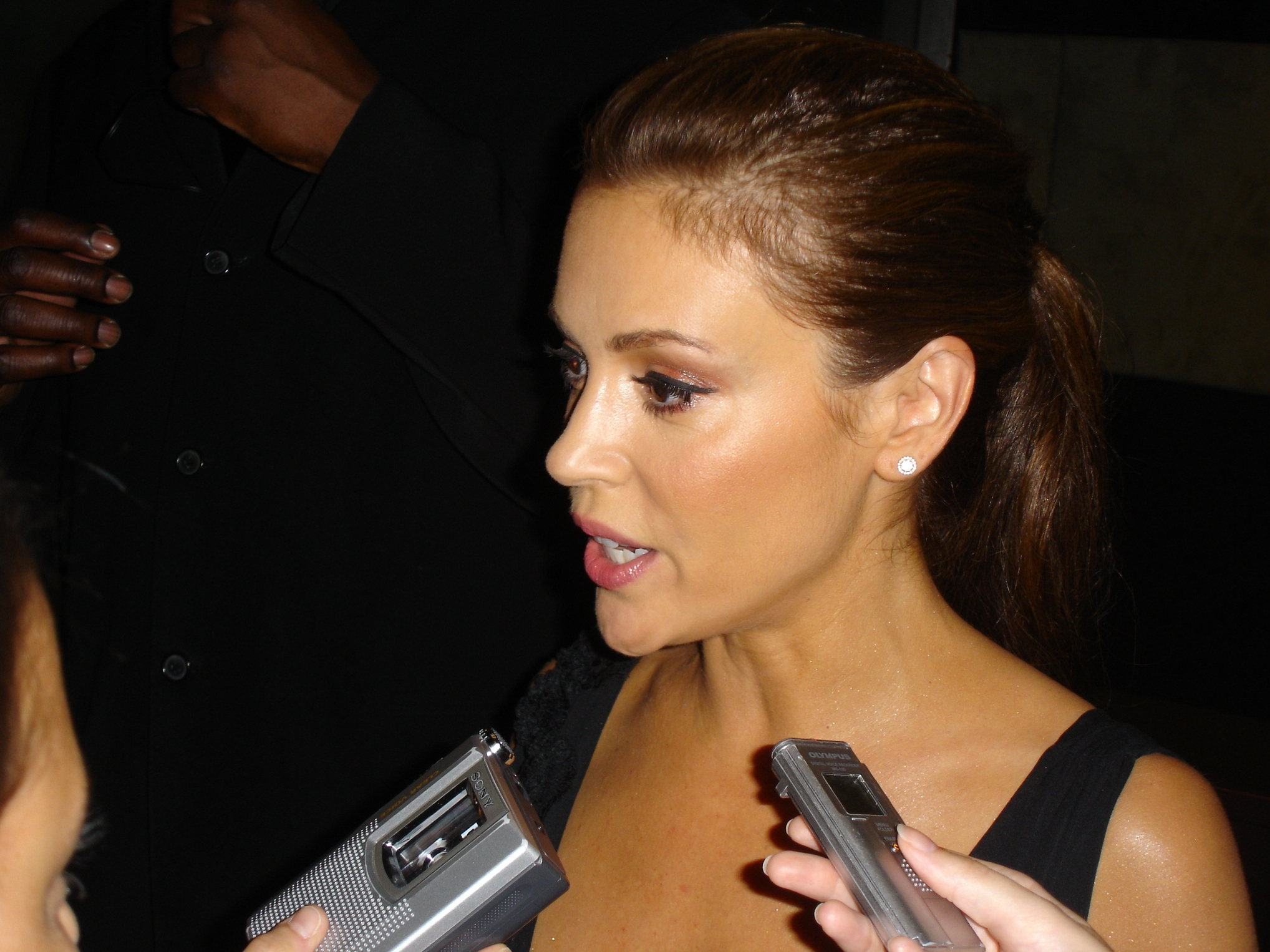 Photo of Alyssa Milano at the Major League All-Star Party Roseland Ballroom NYC